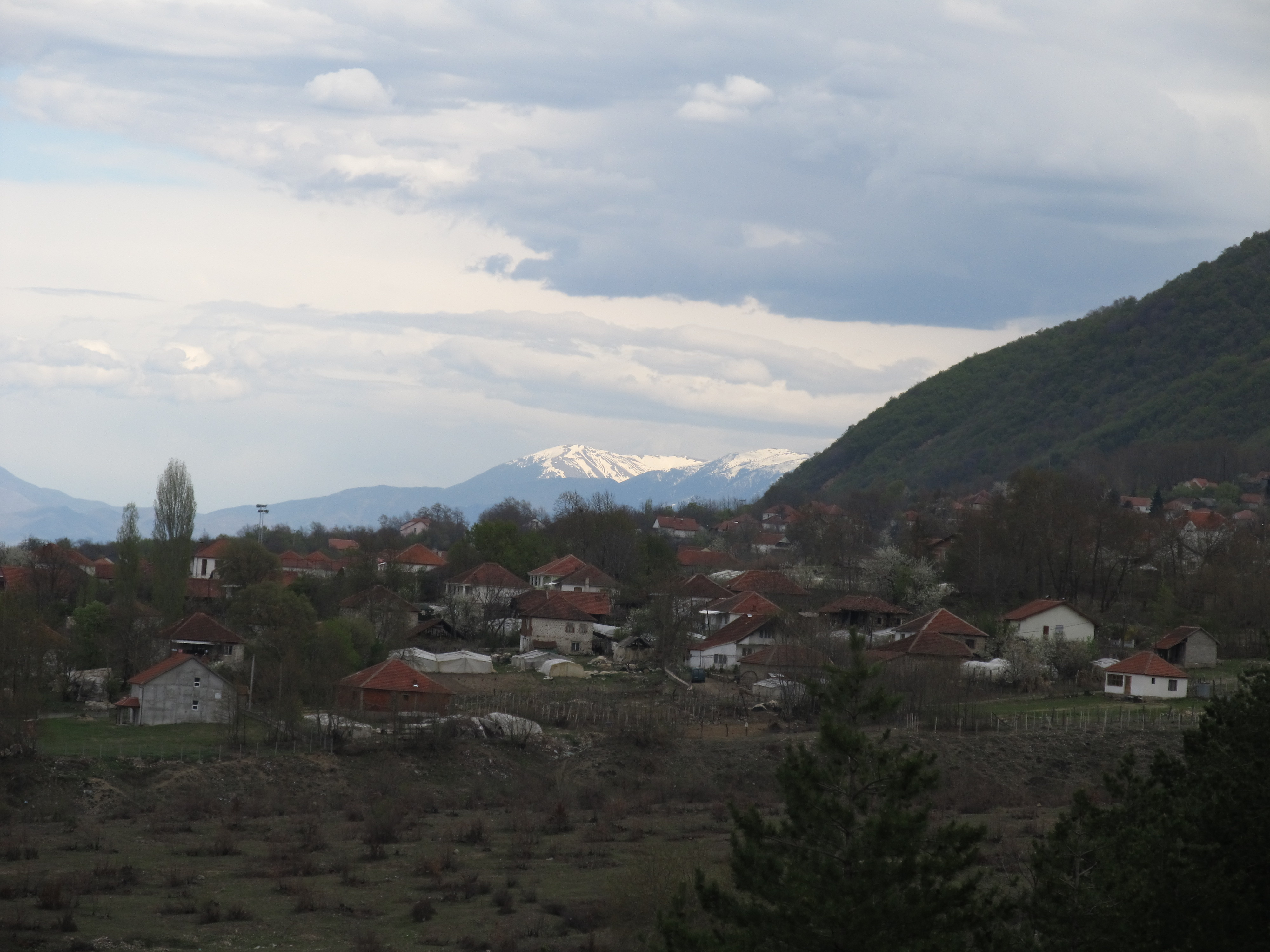 General view of the village Borisovo, Мacedonia